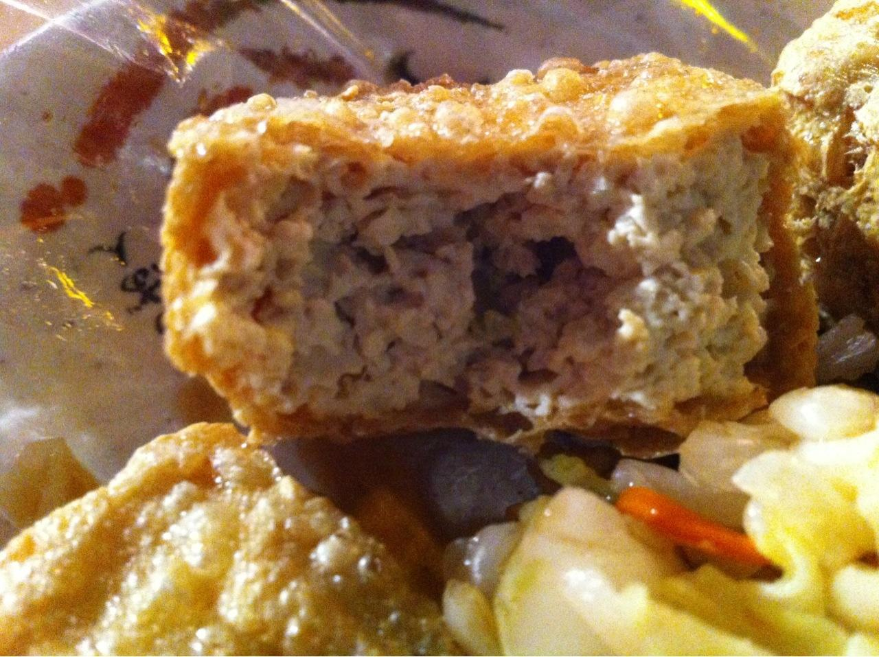 stinky tofu